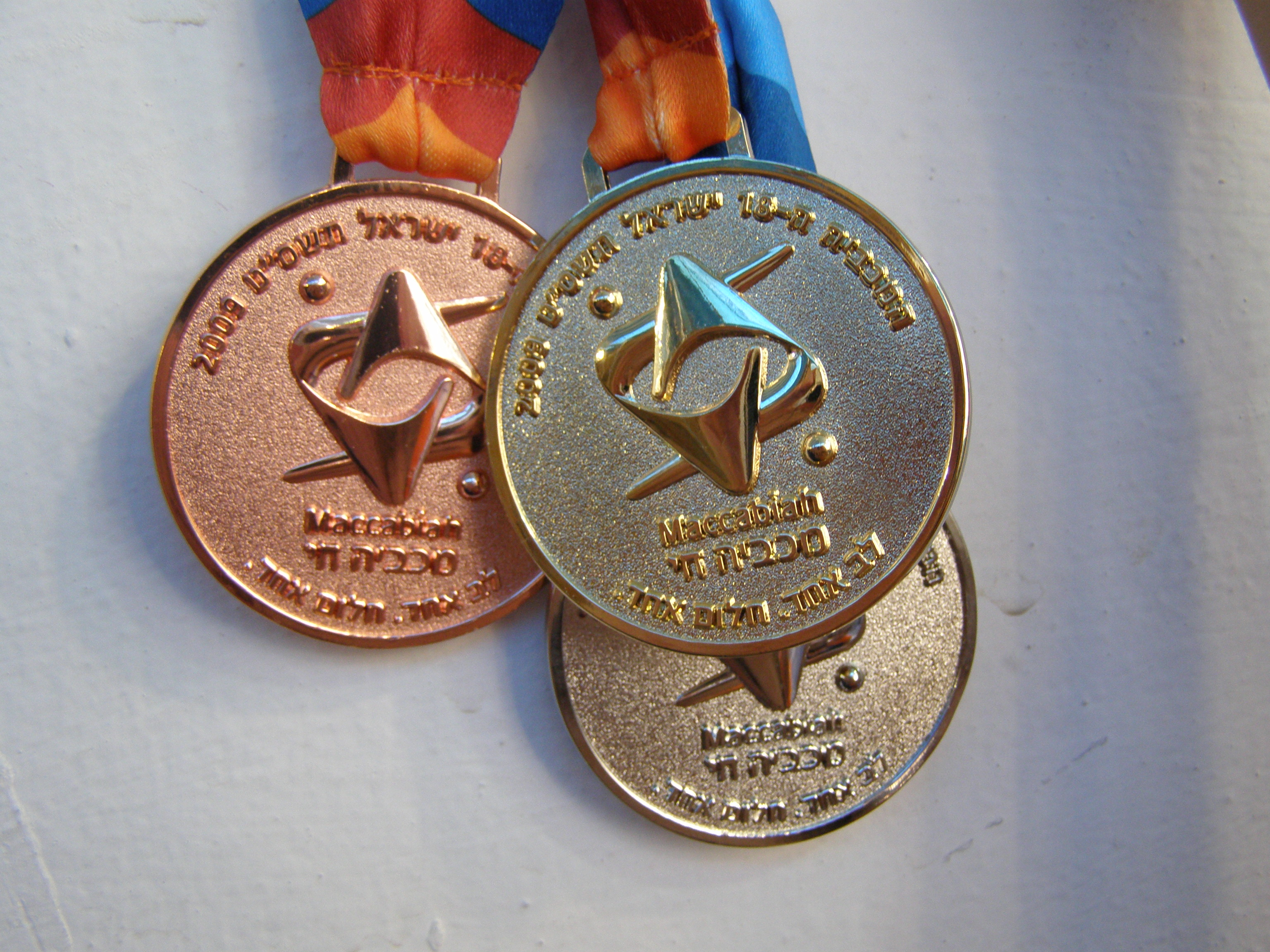 Medals at the Maccabiah games 2009